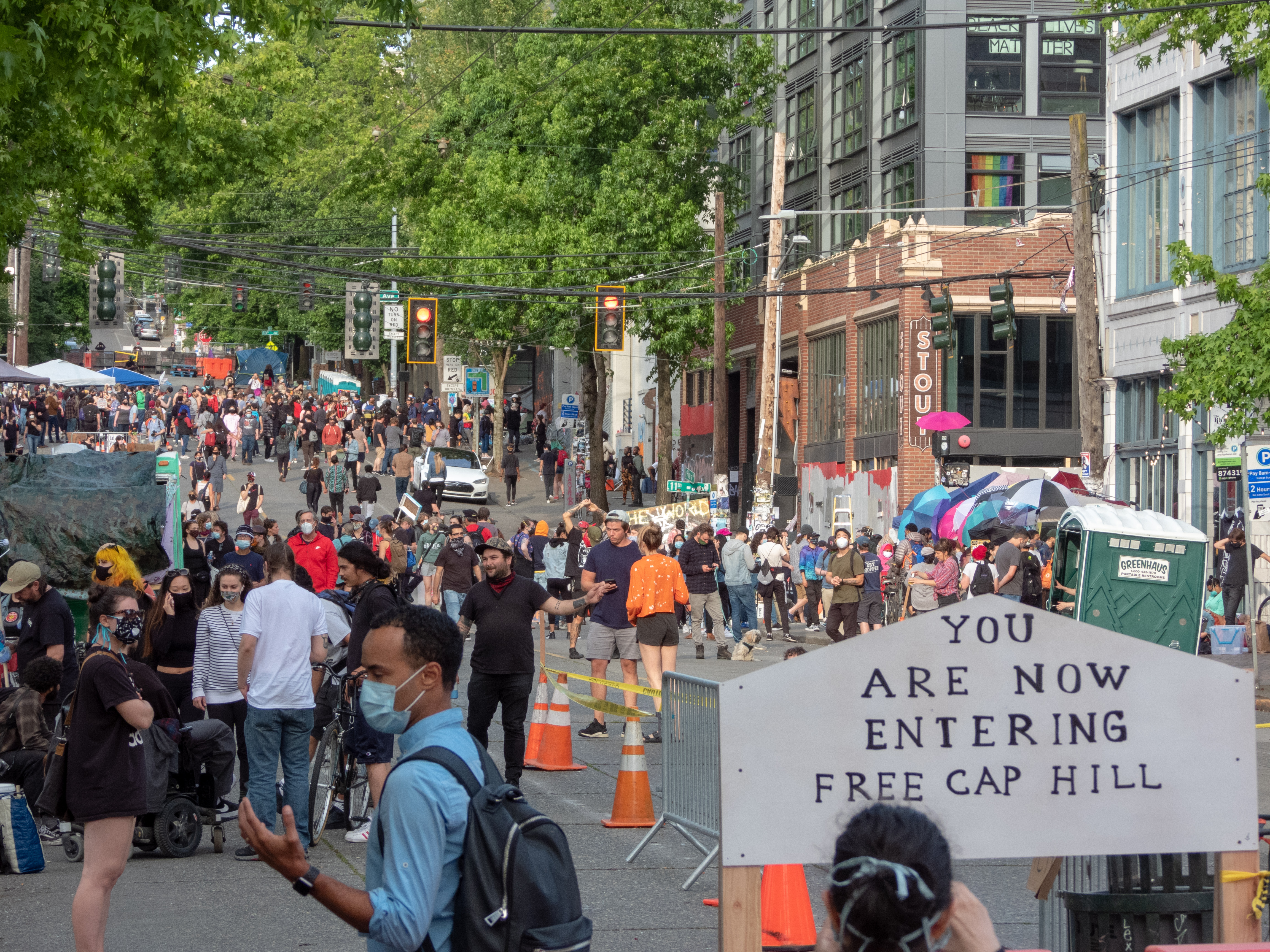 A photo of the Western entrance to the Capitol Hill Autonomous Zone, between 10th and 11th on Pine St. in Seattle, Washington.